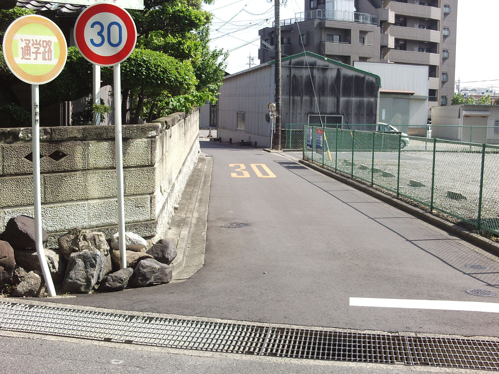 Aichi prefectural road No.244 in Kyoeicho, Obu, Aichi.